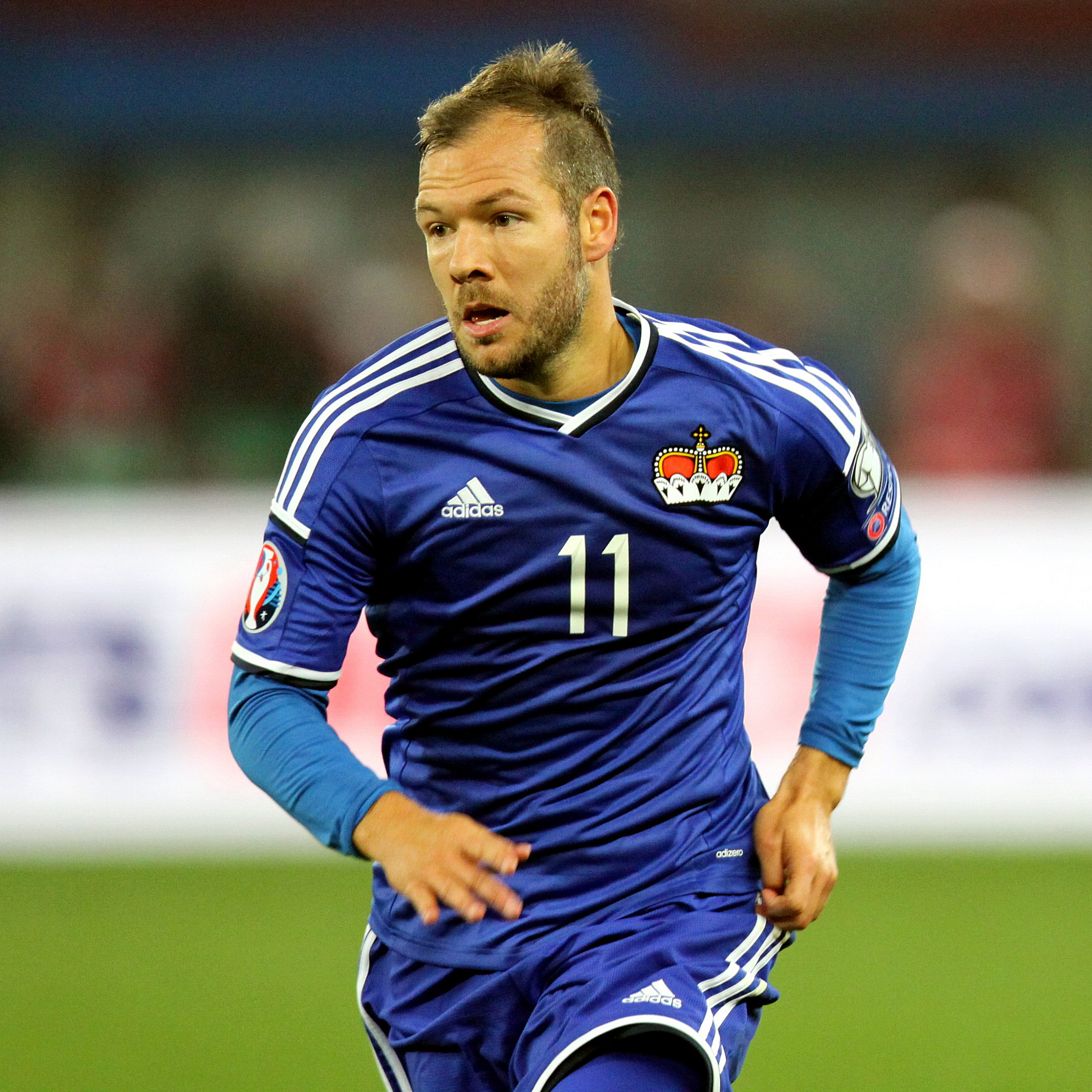 UEFA Euro 2016 qualifying, Group G – Austria (red shirts) vs. Liechtenstein (blue shirts) 3–0 (1–0) on 2015-10-12 in Ernst-Happel-Stadion, Vienna – The photo shows Franz Burgmeier.